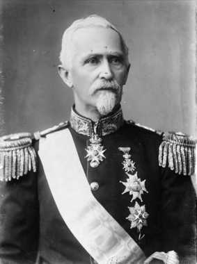 Otto Richard Kierulf (1825–1897), Norwegian military officer and politician. Prime minister in Stockholm 1871–1884. Photo by Ludwik de Ravics Szacinski in the collection of Oslo Museum via DigitaltMuseum.